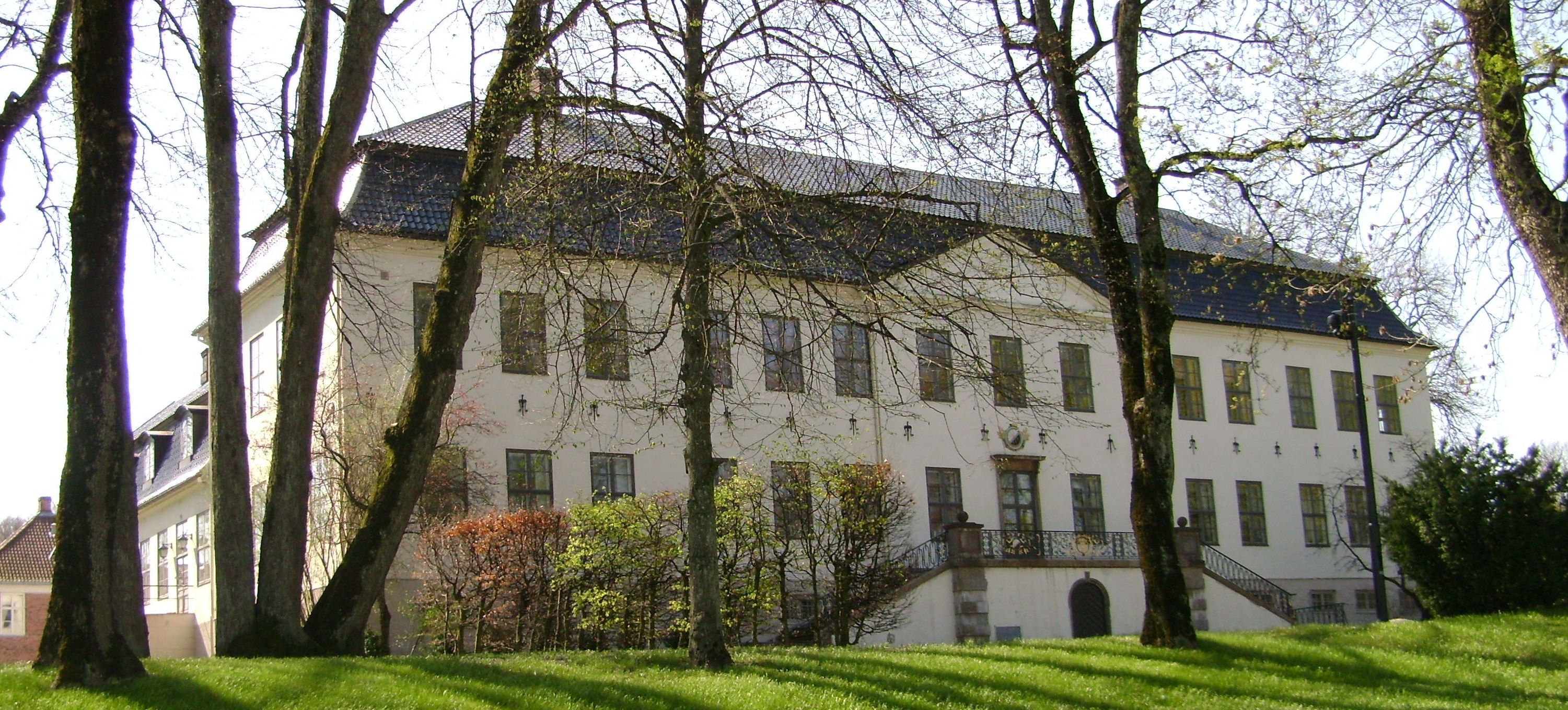 Hafslund Mansion in Sarpsborg,View from the street